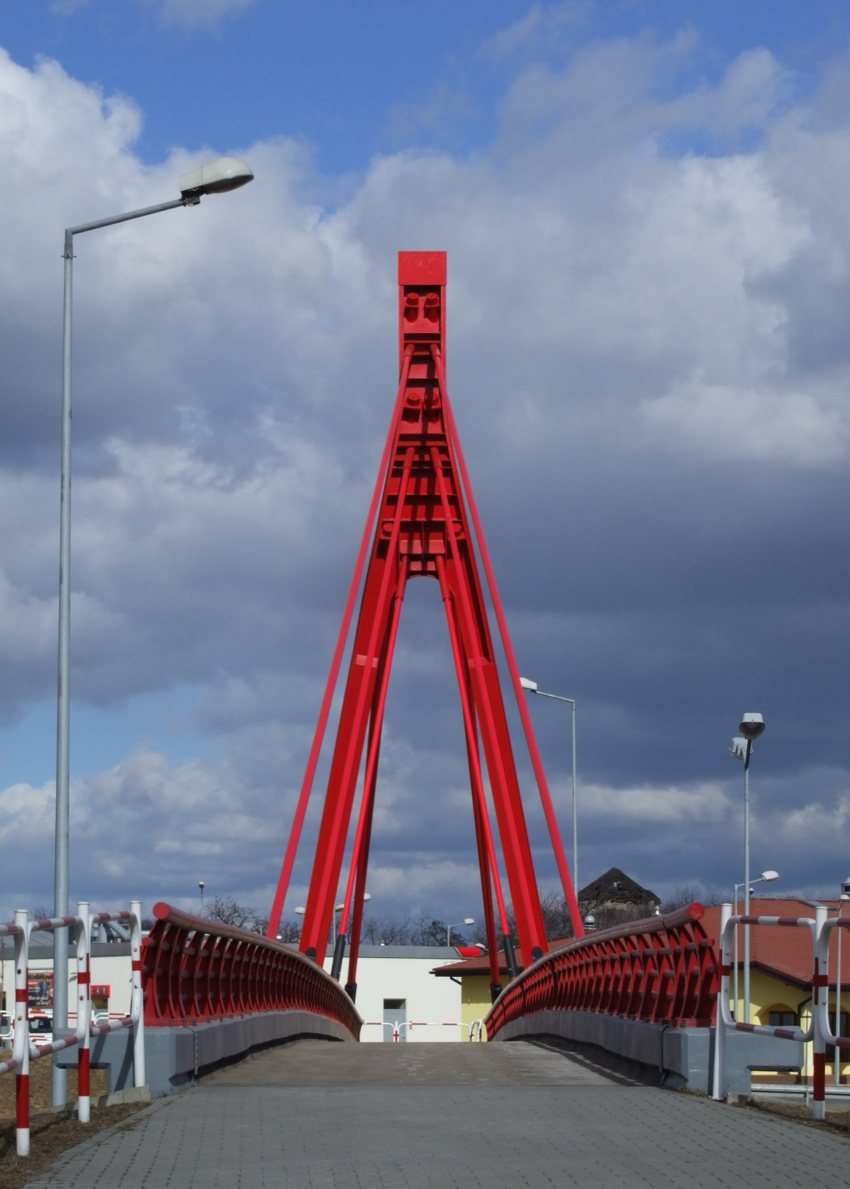 Bridge over A4 highway near Góra Świętej Anny, Poland